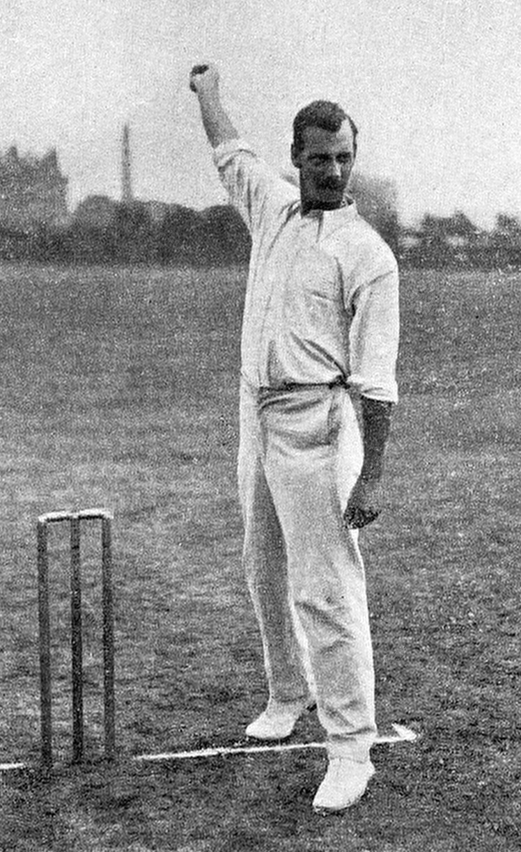 Scan of Cricketer Thomas Soar